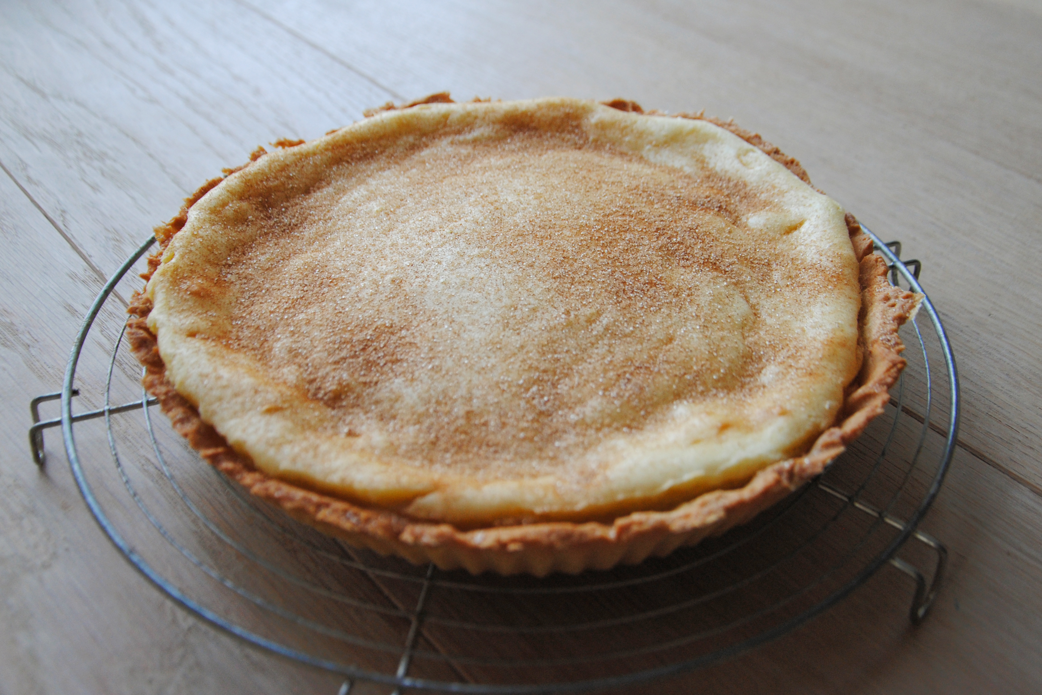 A freshly baked melktert (milk tart), a typical South African custard-like pie, on a grille à patisserie.